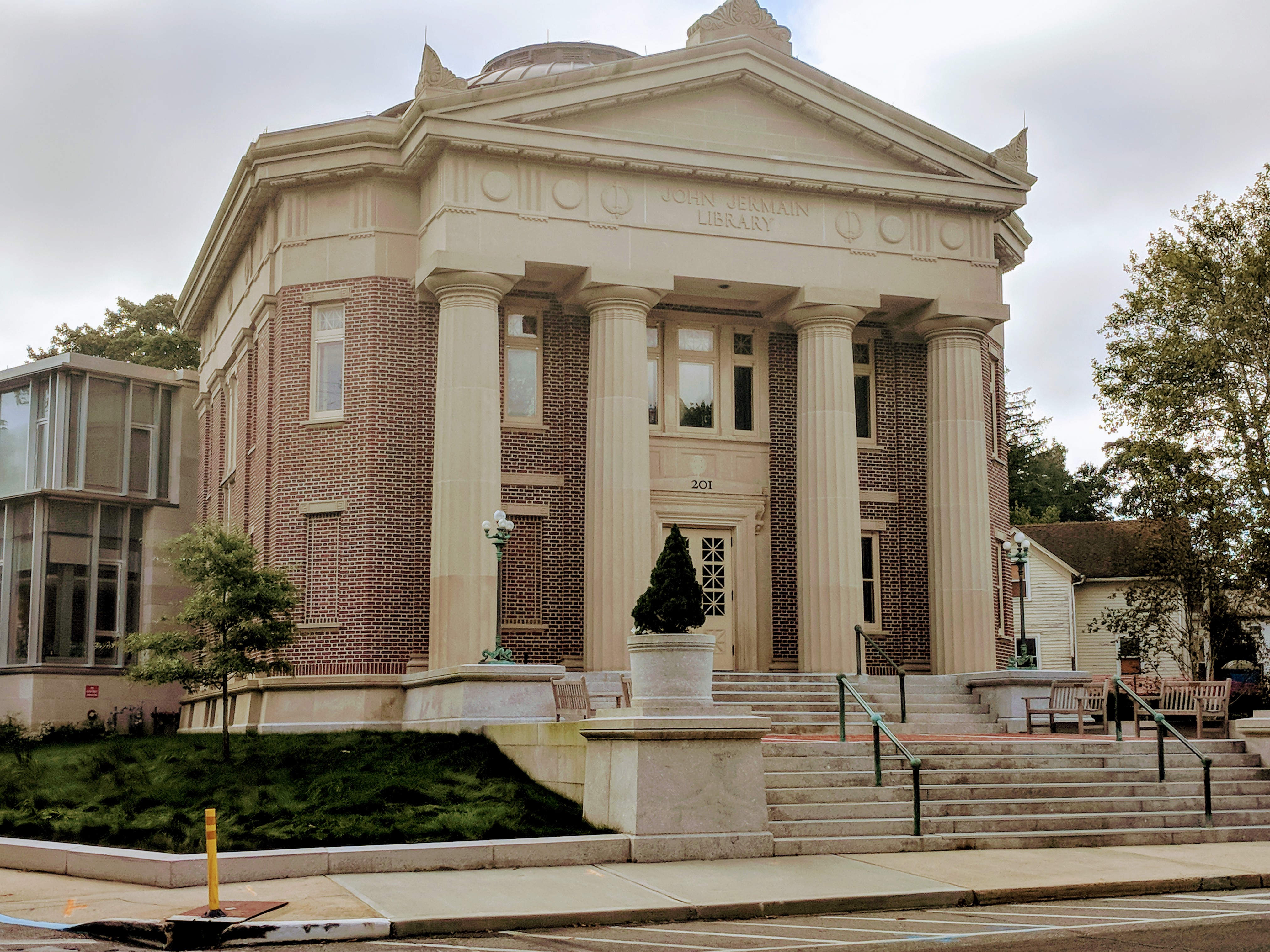 Front entrance of the John Jermain Library on Main st and Union st in Sag Harbor